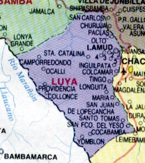 Map of Luya, peruvian province, Region Amazonas, Northern Peru.